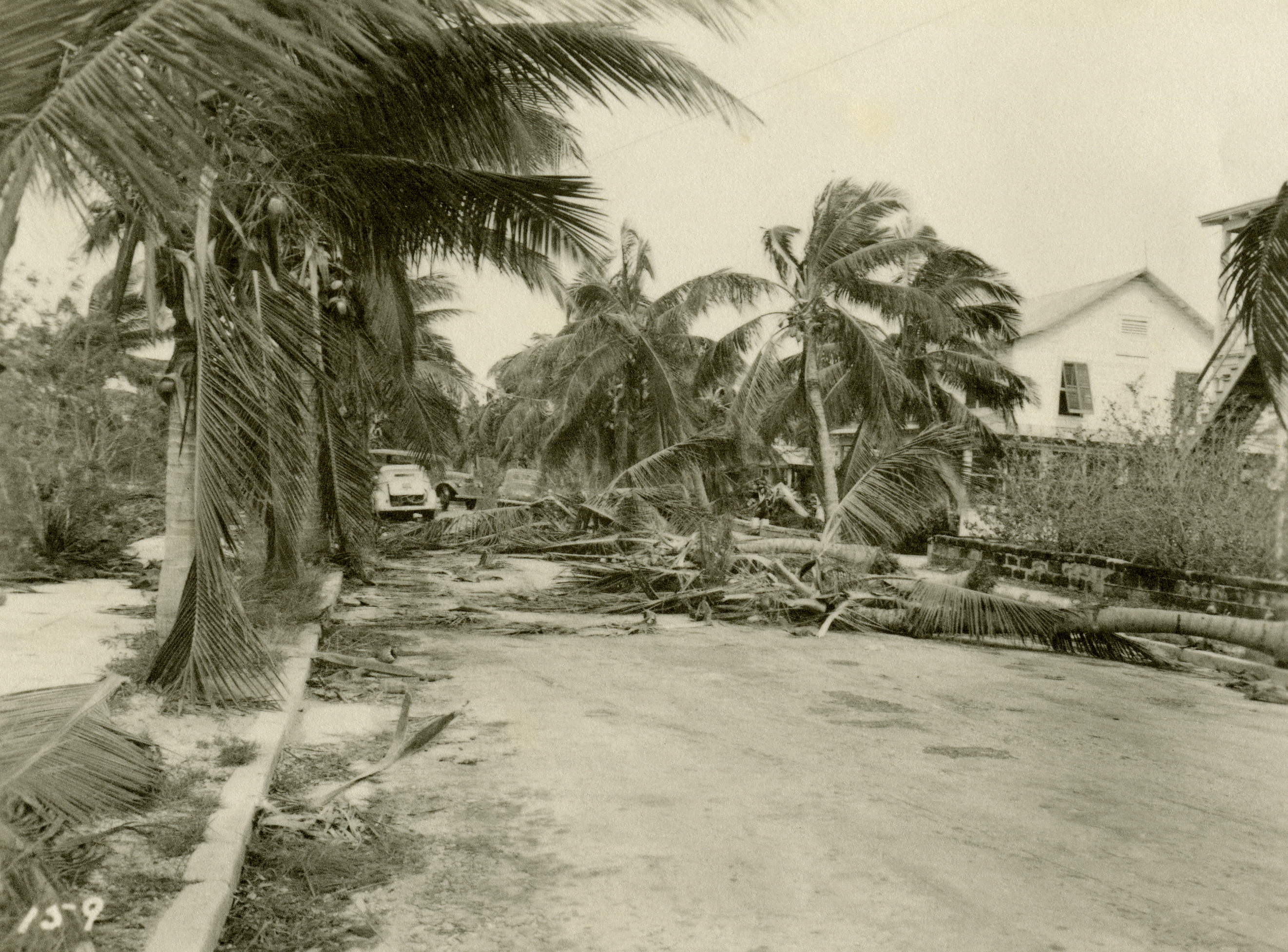 U.S. Navy photo of the Hurricane October 1944. Effects of the 1944 Cuba–Florida hurricane in Key West, Florida, October 1944.